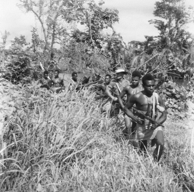 AWM Caption: HANSA BAY, NEW GUINEA. 1944-07-08. NO. 5 PLATOON, A COMPANY, 1ST PAPUAN INFANTRY BATTALION, ESCORTED BY SERGEANT R.H. BARKER, ON PATROL. THE LEADING BOY IS INANDUA, WHO HAS 25 JAPANESE TO HIS CREDIT. HE IS FOLLOWED BY POYAGET, WHO HAS 21 JAPANESE TO HIS CREDIT.